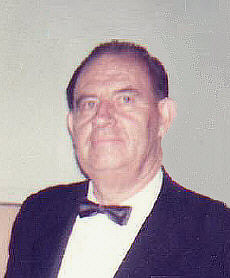 The Rev. G. E. Lowman (1897-1965), famed American radio evangelist, in 1964.